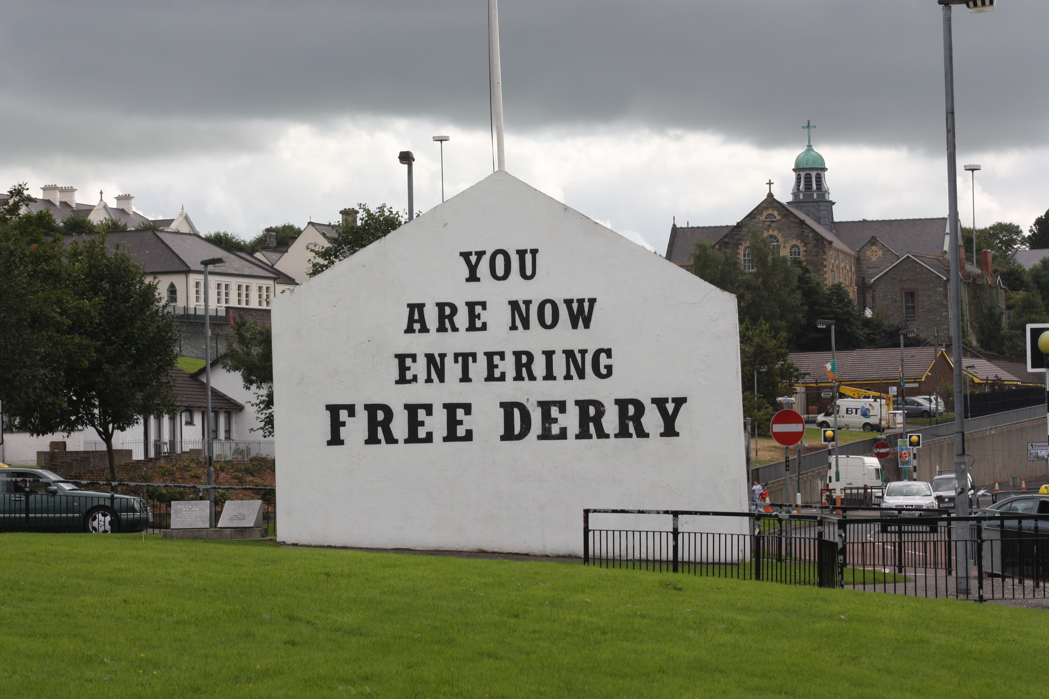 Free Derry Corner, Bogside, Derry, County Londonderry, Northern Ireland, August 2009